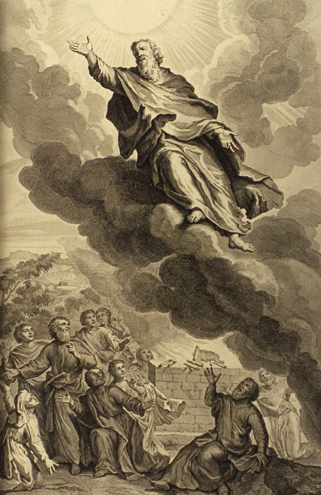 God took Enoch, as in Genesis 5:24: "And Enoch walked with God: and he was not; for God took him." (KJV) illustration from the 1728 Figures de la Bible; illustrated by Gerard Hoet (1648–1733) and others, and published by P. de Hondt in The Hague; image courtesy Bizzell Bible Collection, University of Oklahoma Libraries